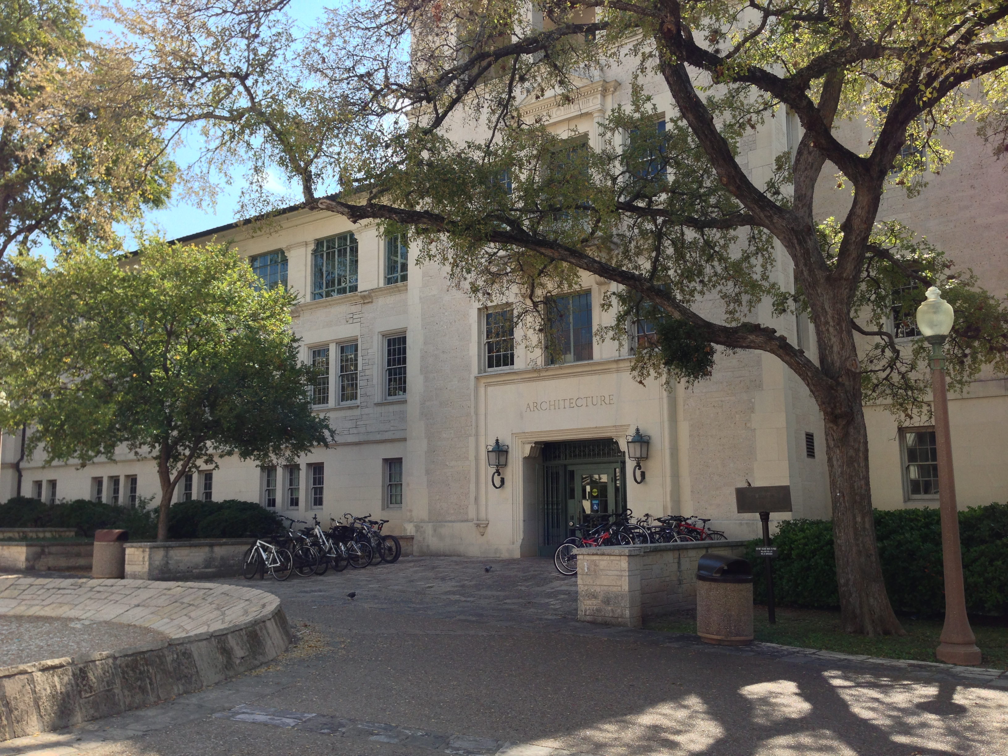 Photo taken from West Mall